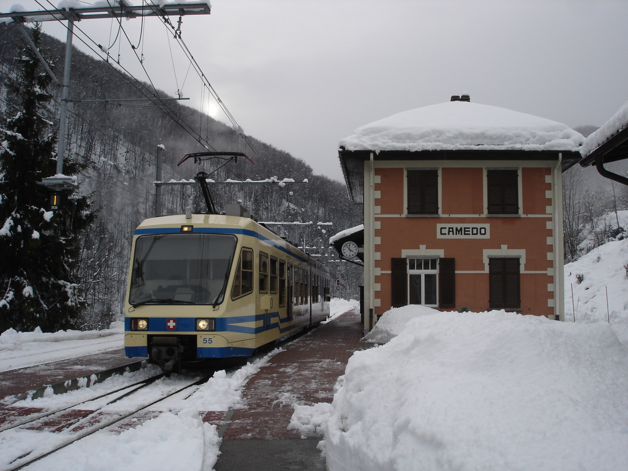 EMU ABe 4/6 55, owned by FART, at Camedo (Switzerland).